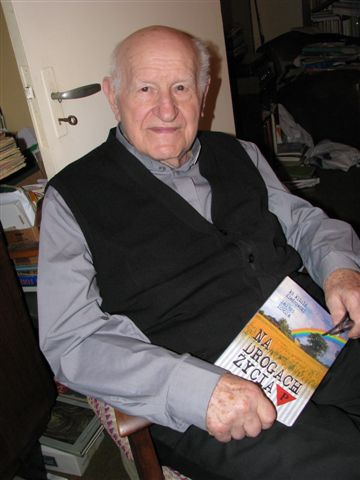 Witold Kiedrowski (b. April 16, 1912 in Buk Pomorski), Polish catholic priest, veteran of II World War II, combatant. He lives in Paris (France)